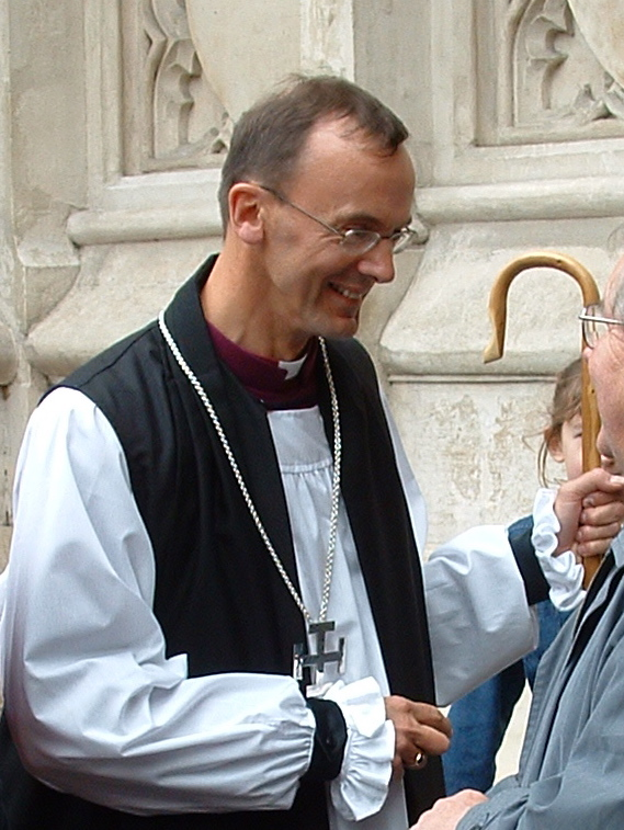 John Inge pictured greeting his friends outside the west door of Westminster Abbey immediately after his consecration as Bishop of Huntingdon on 9 October 2003, by the Archbishop of Canterbury (Rowan Williams) together with the Bishops of London, Winchester, Oxford, Ely, the Bishop Suffragan of Stockport and other bishops.